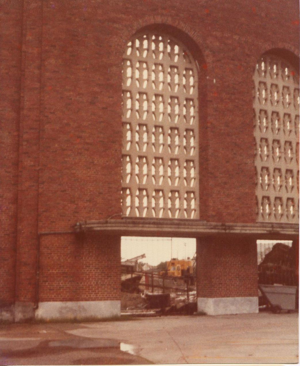 New Orleans: Tulane Stadium in process of being demolished, 1980. In this photo the section of the brick fascade in front is still standing, but stadium inside largely demoished.